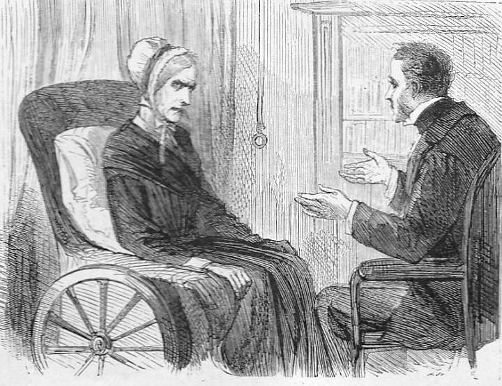 Little Dorrit, Arthur Clennam and his mother